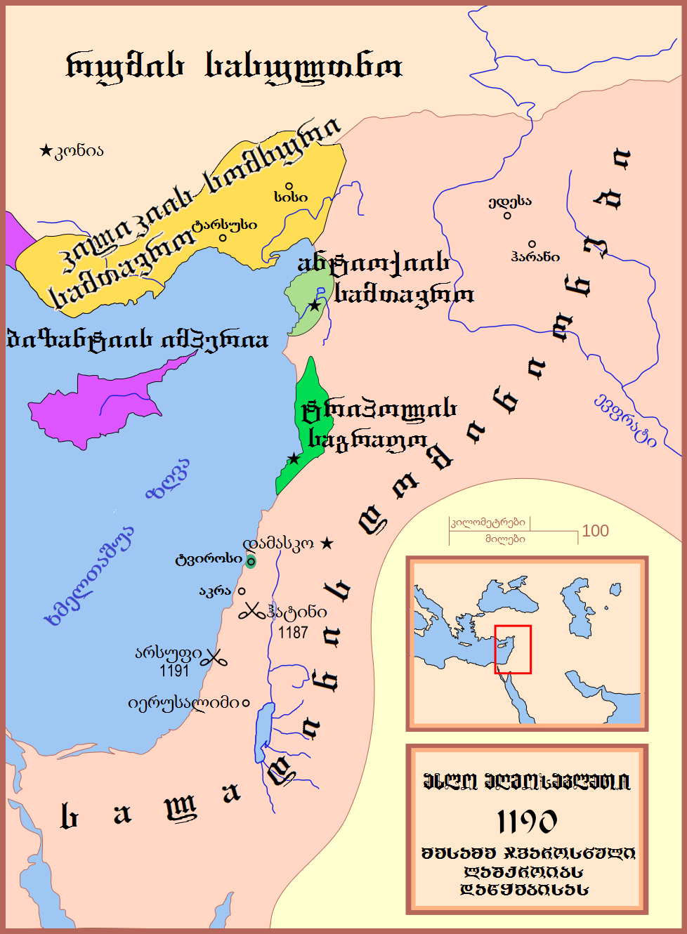 Crusader States in 1190